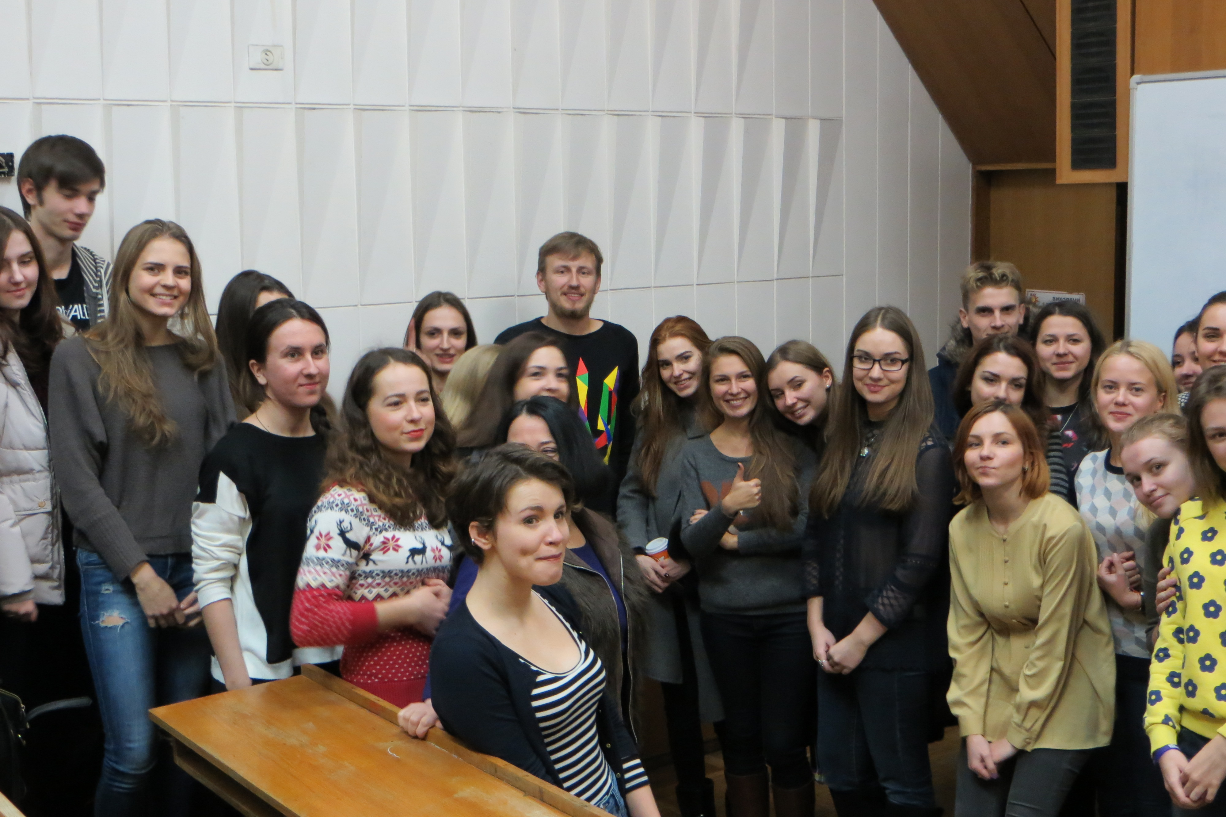 Bogdan Logvynenko in Kyiv University